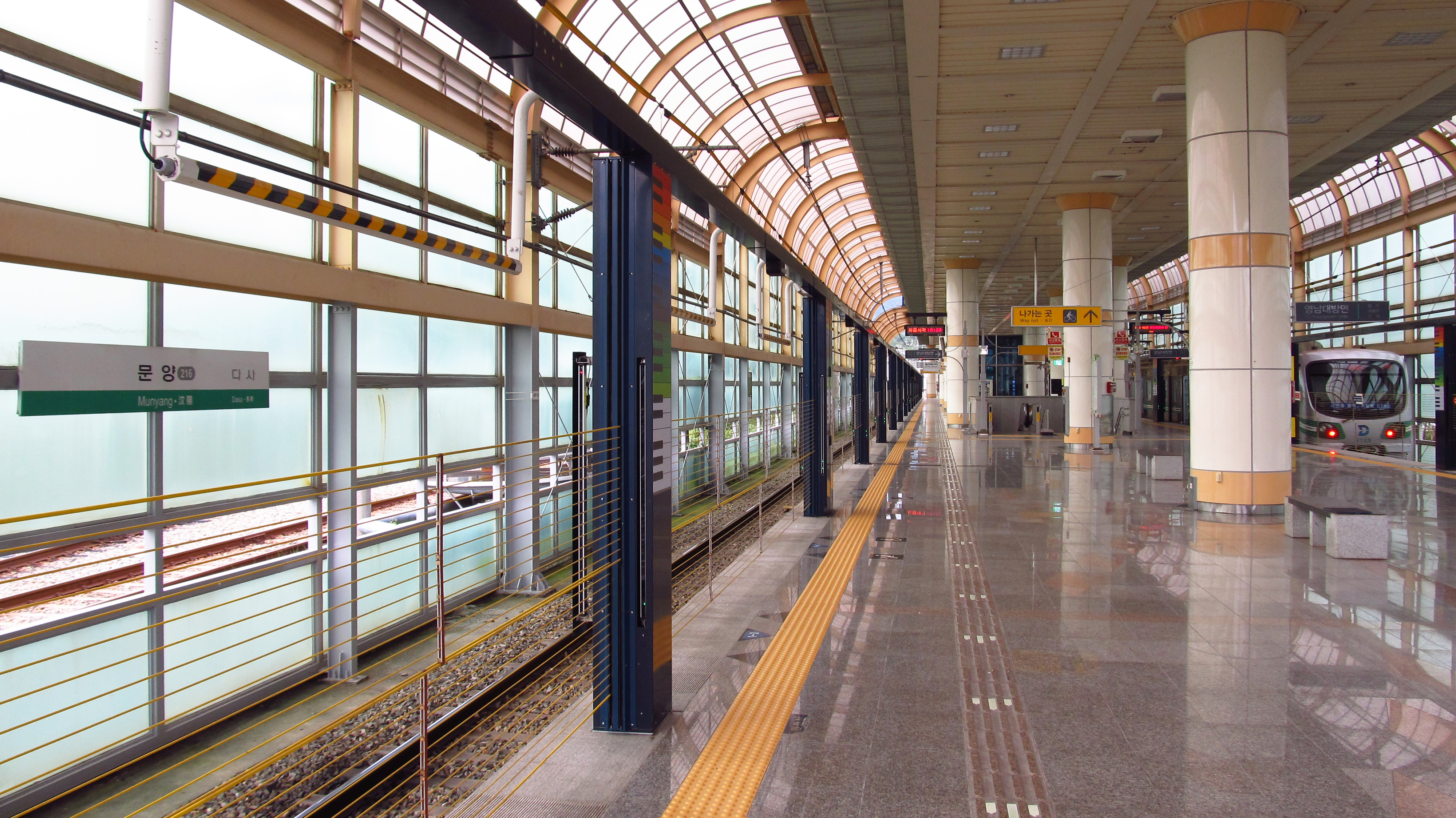 The platform at Munyang Station on the Daegu Metro Line 2